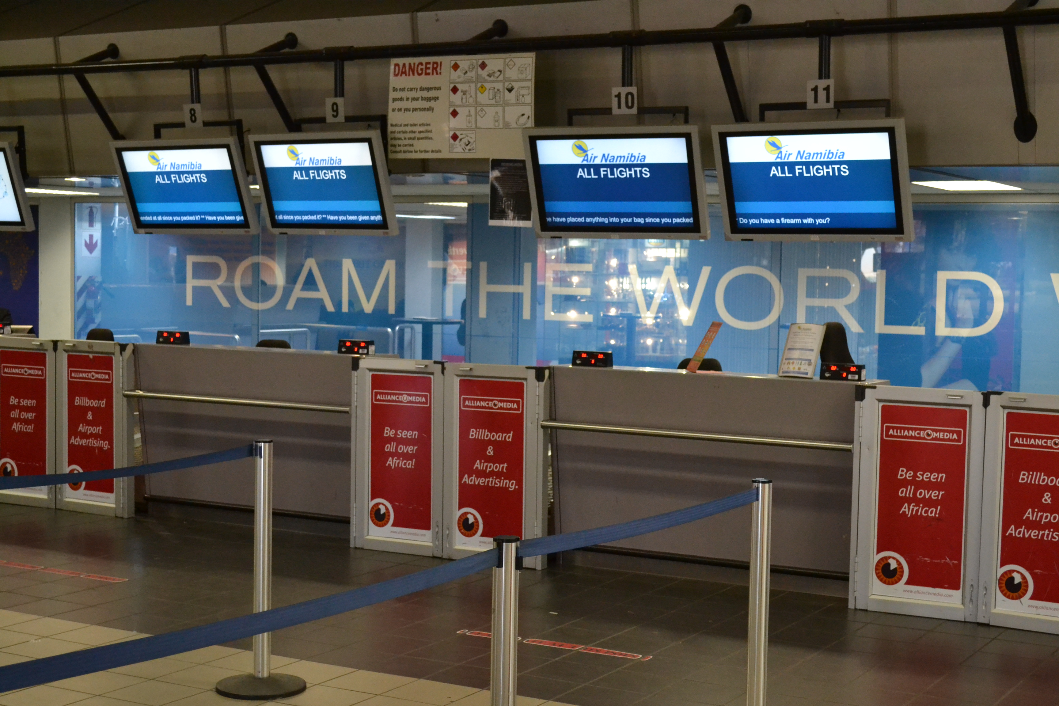 Counters at Hosea Kutako International Airport in Windhoek, Namibia